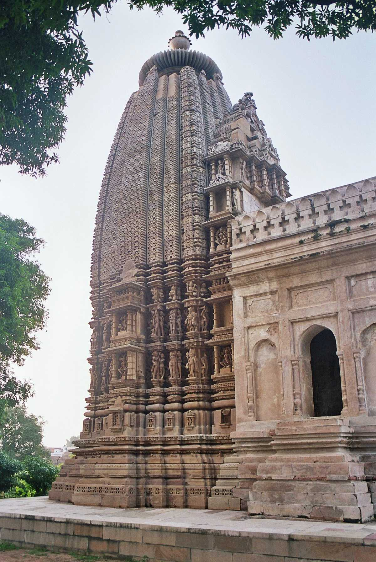 Adinath Jain Temple in Khajuraho, India (according the page Jain temples of Khajuraho). Picture taken by User:Airunp.